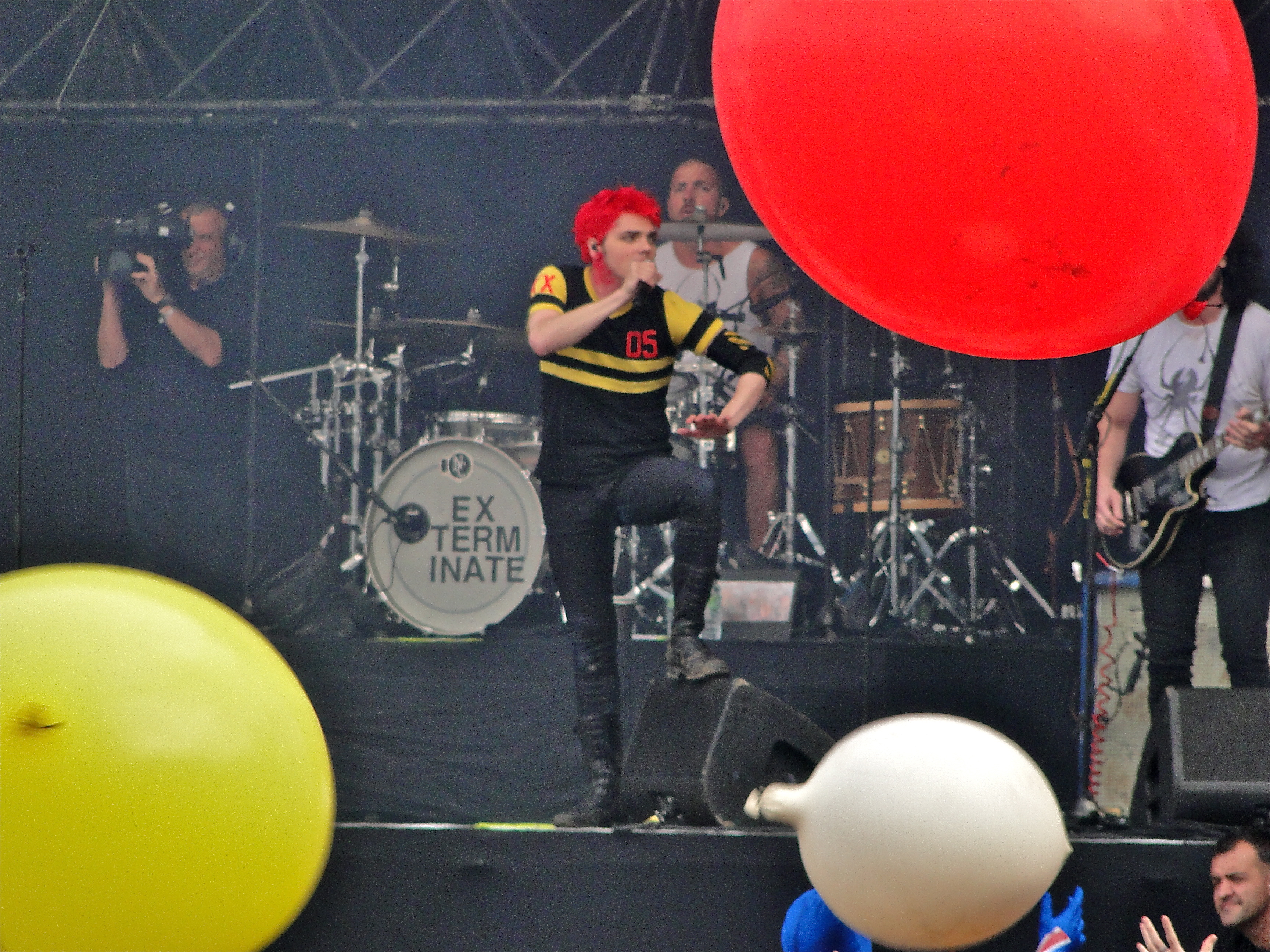 My Chemical Romance performing at Rock en Seine, 2011